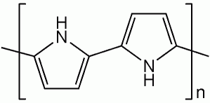 Chemical structure of Polypyrrole; b/w hires PNG; ChemDraw